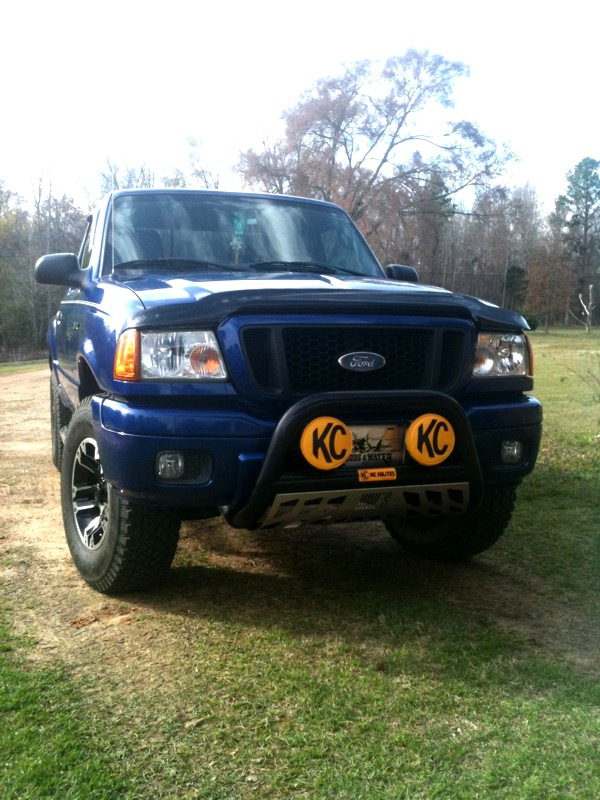 Ford Ranger with KC HiLiTES lamps